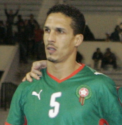 Talal El Karkouri (Morocco) before the friendly match against Czech Republic on February 11, 2009